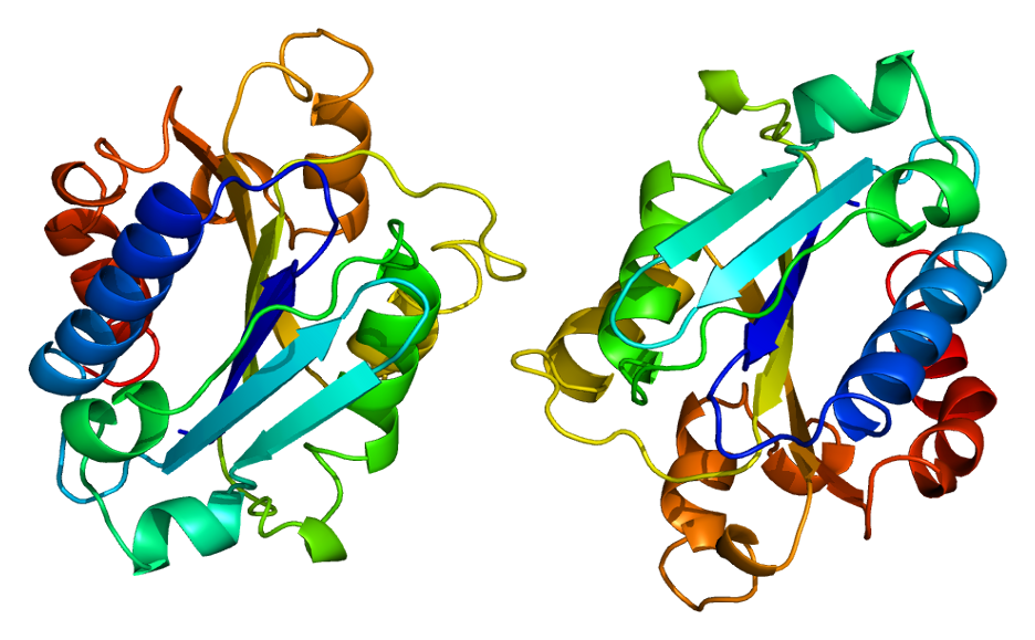 Structure of the ITGAM protein. Based on PyMOL rendering of PDB 1bho.